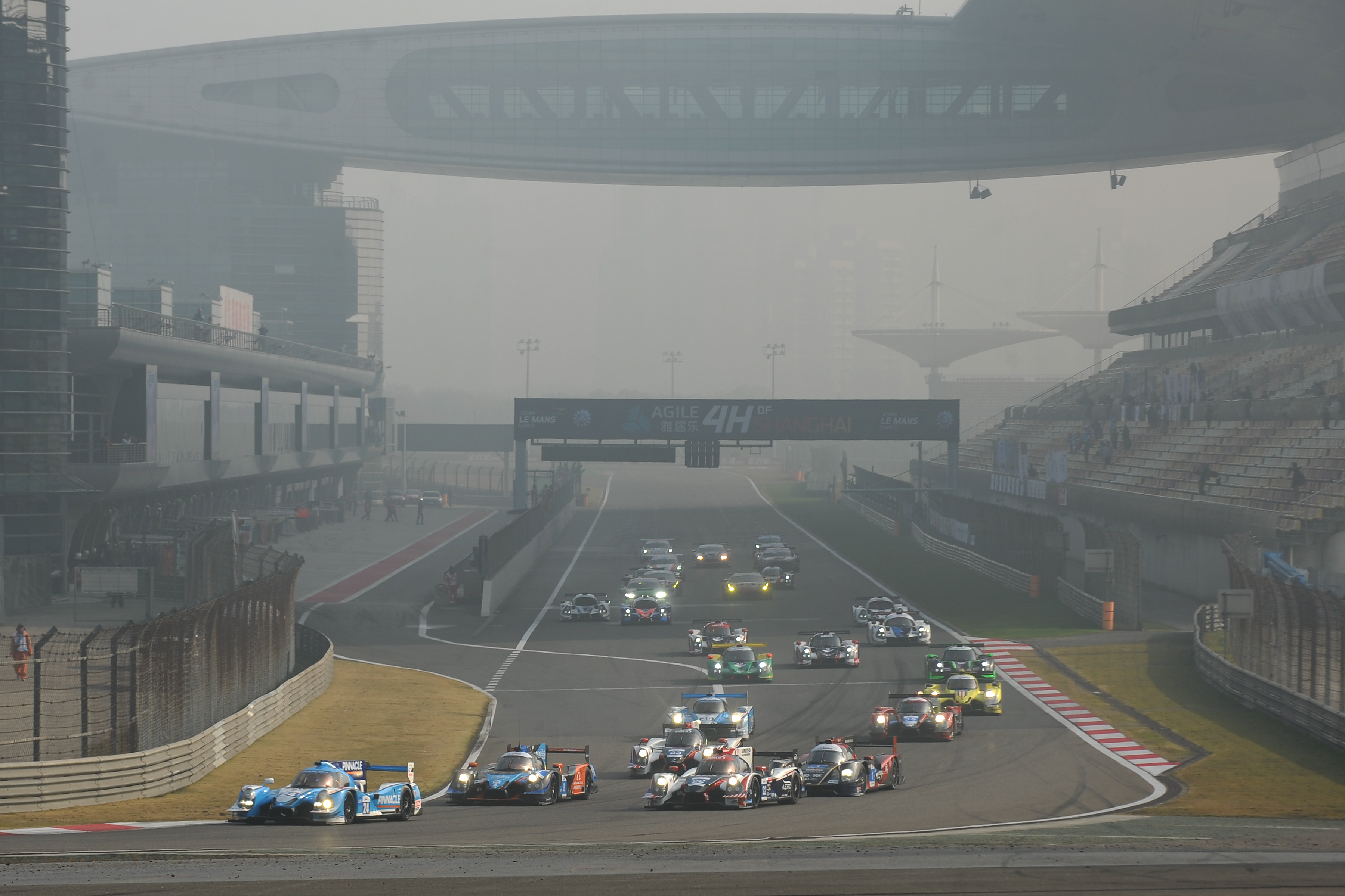 Asian Le Mans Series - 2018 4 Hours of Shanghai - Start of the race